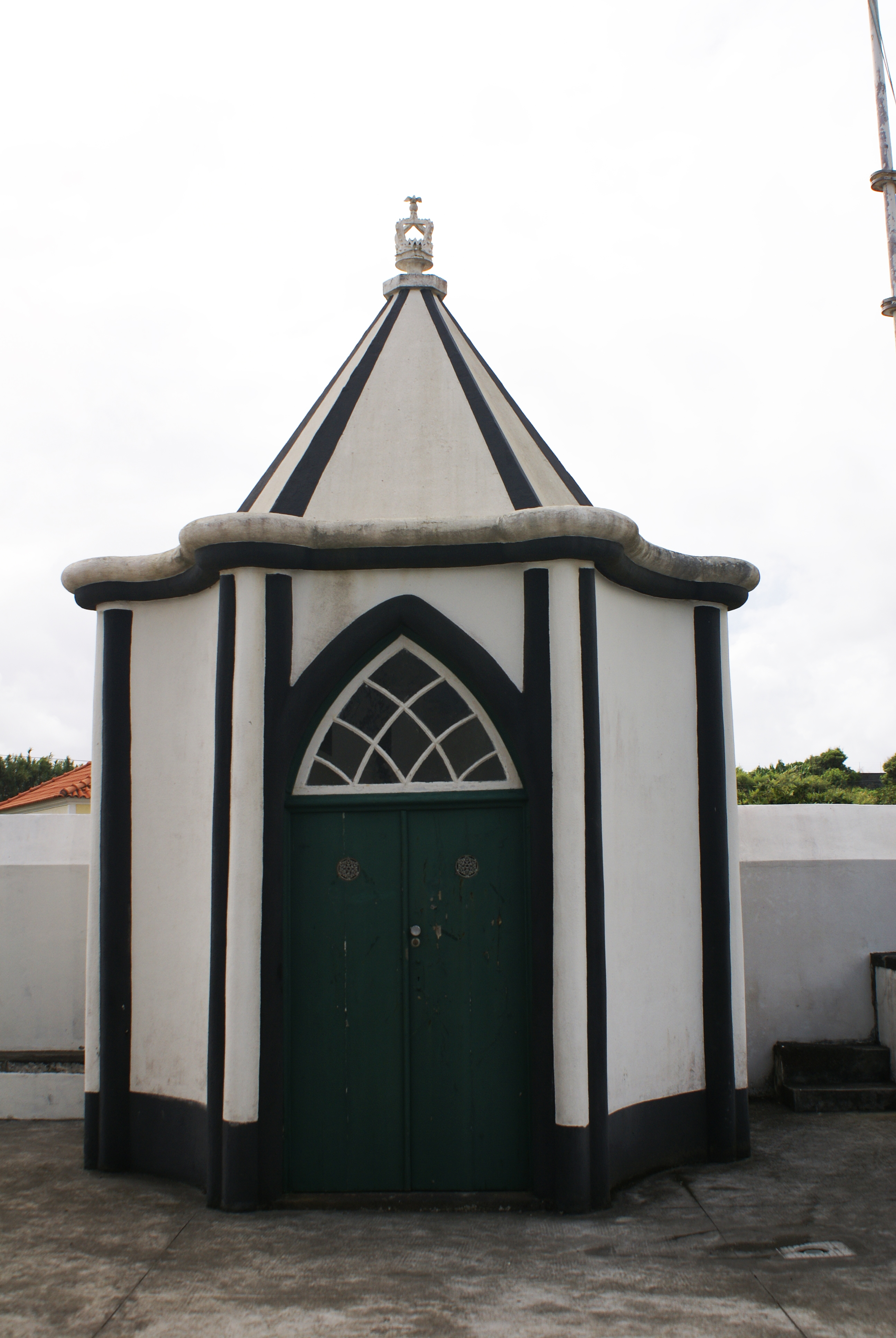 The Império do Espírito Santo da Caridade, Feteira, Horta, Faial (Azores), Portugal